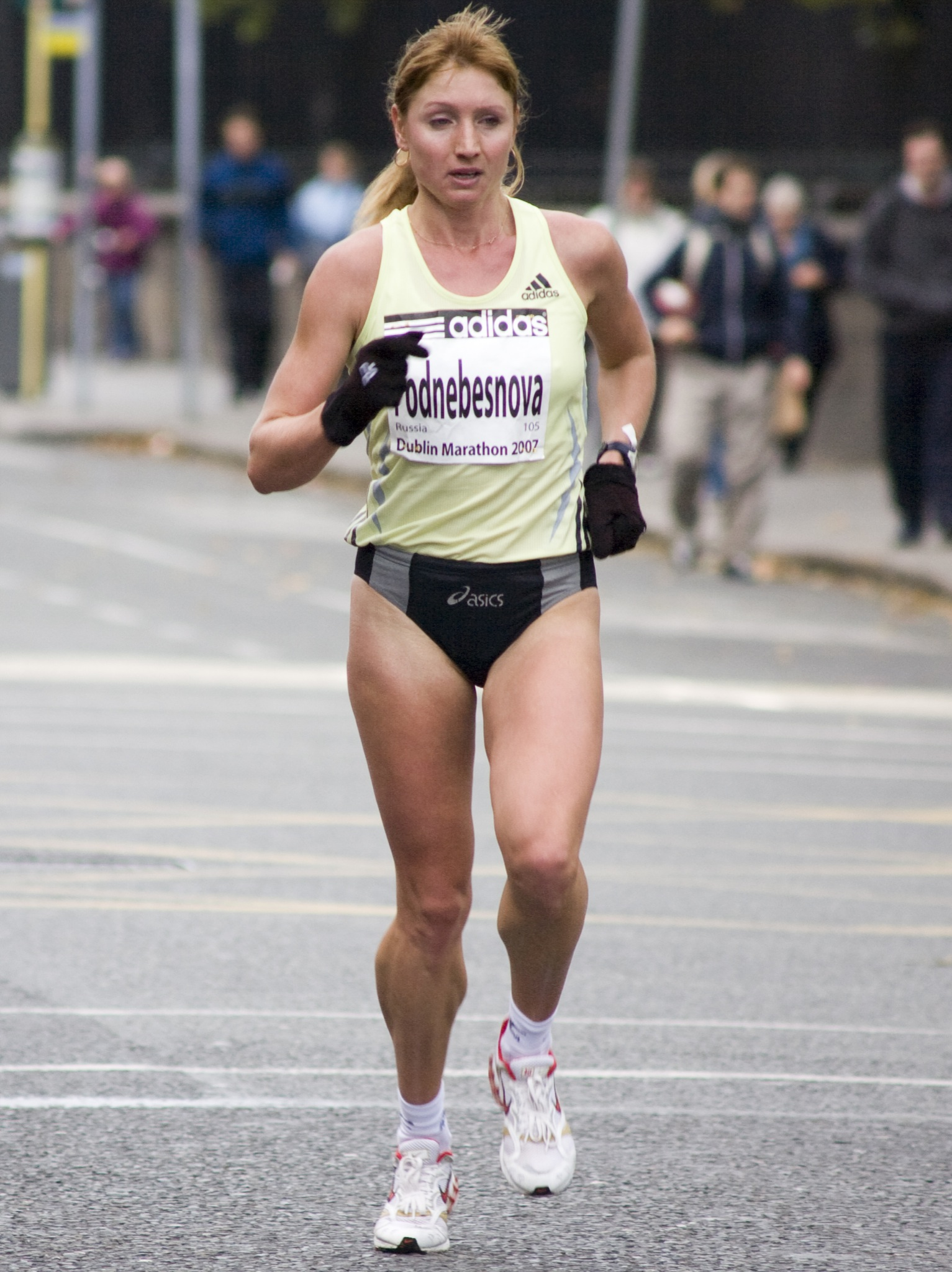 Monday 29th October, 2007. Aleksey Sokolov has retained his adidas Dublin Marathon title and set a new Dublin Marathon record time of 2:09:07 to win the 2007 adidas Dublin Marathon. Fellow Russian and 2006 title holder Alina Ivanova also retained her title in the ladies race in a time of 2:29:20. Speaking at the finish Sokolov shared his delight at retaining the title: “I am delighted to come back and win in Dublin again this year. I have also achieved a personal best, which is an extra bonus. The atmosphere was great on the day and the crowd was really supportive.” Pauline Curley was the first Irish lady to cross the line in 2:42:30, while Galway’s Michael O’Connor took the Irish men’s title in 2:25:48. Speaking after the race Curley commented: “It is great to come back this year to take the Irish ladies title.” Approximately 11,000 runners turned out on the day to take part in the race, which had 52 countries represented. Results Men’s 1st Aleksey Sokolov (2:09:07) 2nd Thomas Abyu (2:10:37) 3rd Dejene Yirdawe (2:11:08) Women’s 1st Alina Ivanova(2:29:20) 2nd Larisa Zyusko (2:31:42) 3rd Nguriatukei RaelKiyara (2:33:27) Wheelchair 1st Richie Powell (1:59:06) 2nd Jim Corbett (2:16:35) 3rd Paul Hannon (2:20:19)